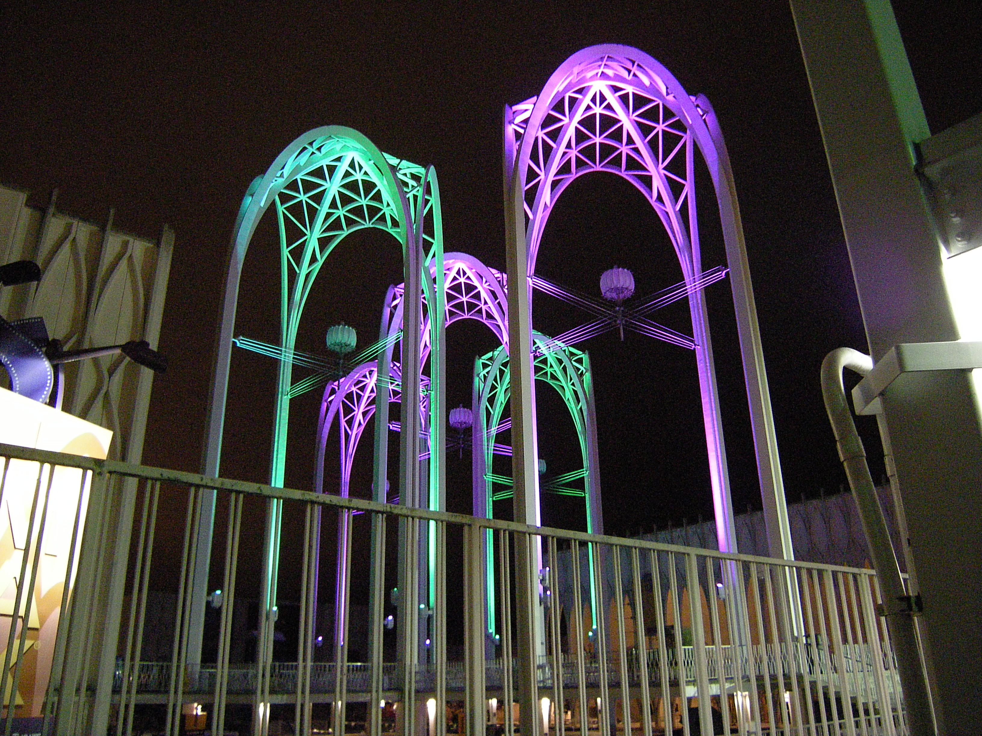 Pacific Science Center, Seattle Center, Seattle, Washington lit up at night.